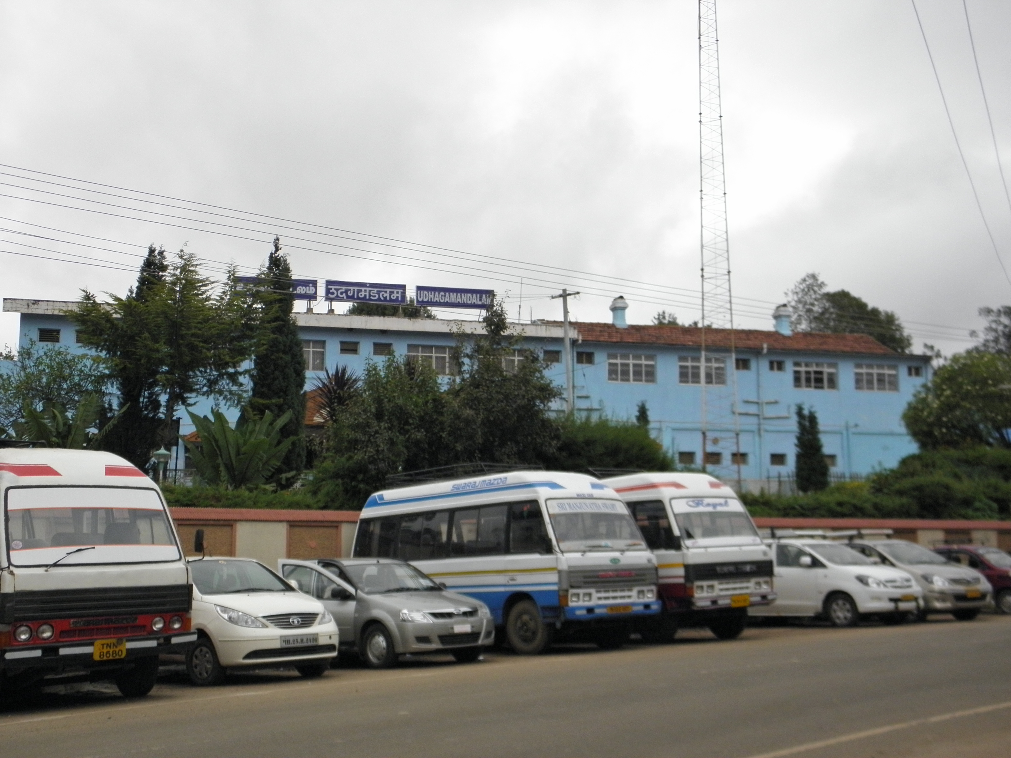 Udagmandalam Railway station